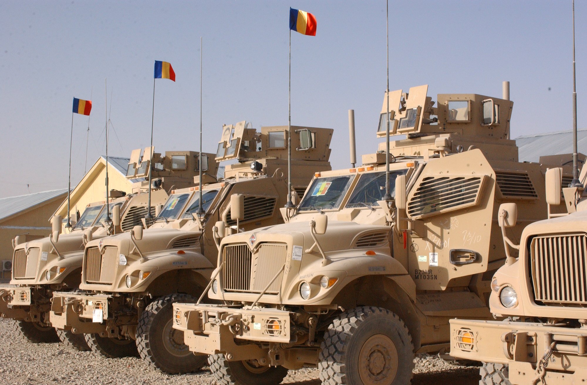 The first eight Mine Resistant Ambush Protected (MRAP) vehicles now in use of the 811th “Dragonii Transilvani” Maneuver Battalion and the 812th “Şoimii Carpaţilor” Maneuver Battalion deployed in Zabul Province.